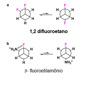 Gauche effect and the charge-dipole interactions